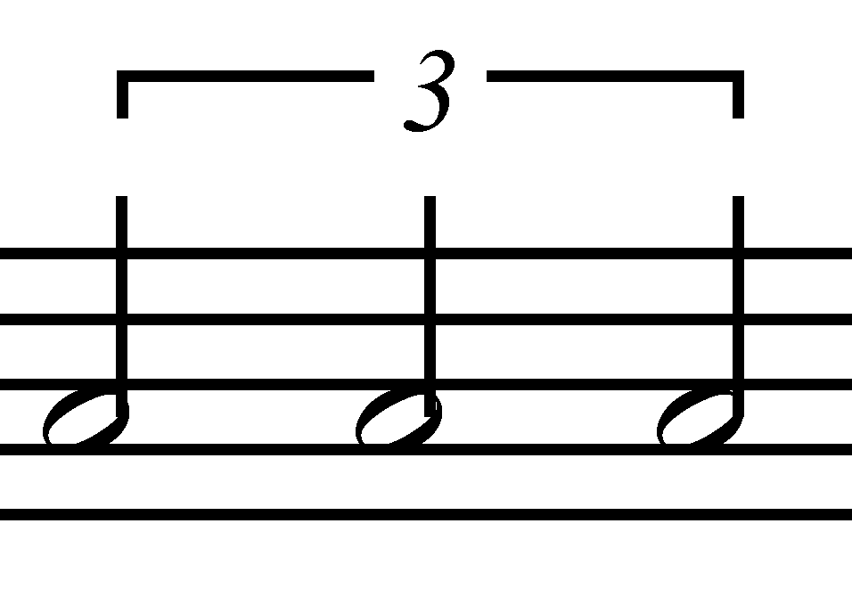 triplet out of three half-notes